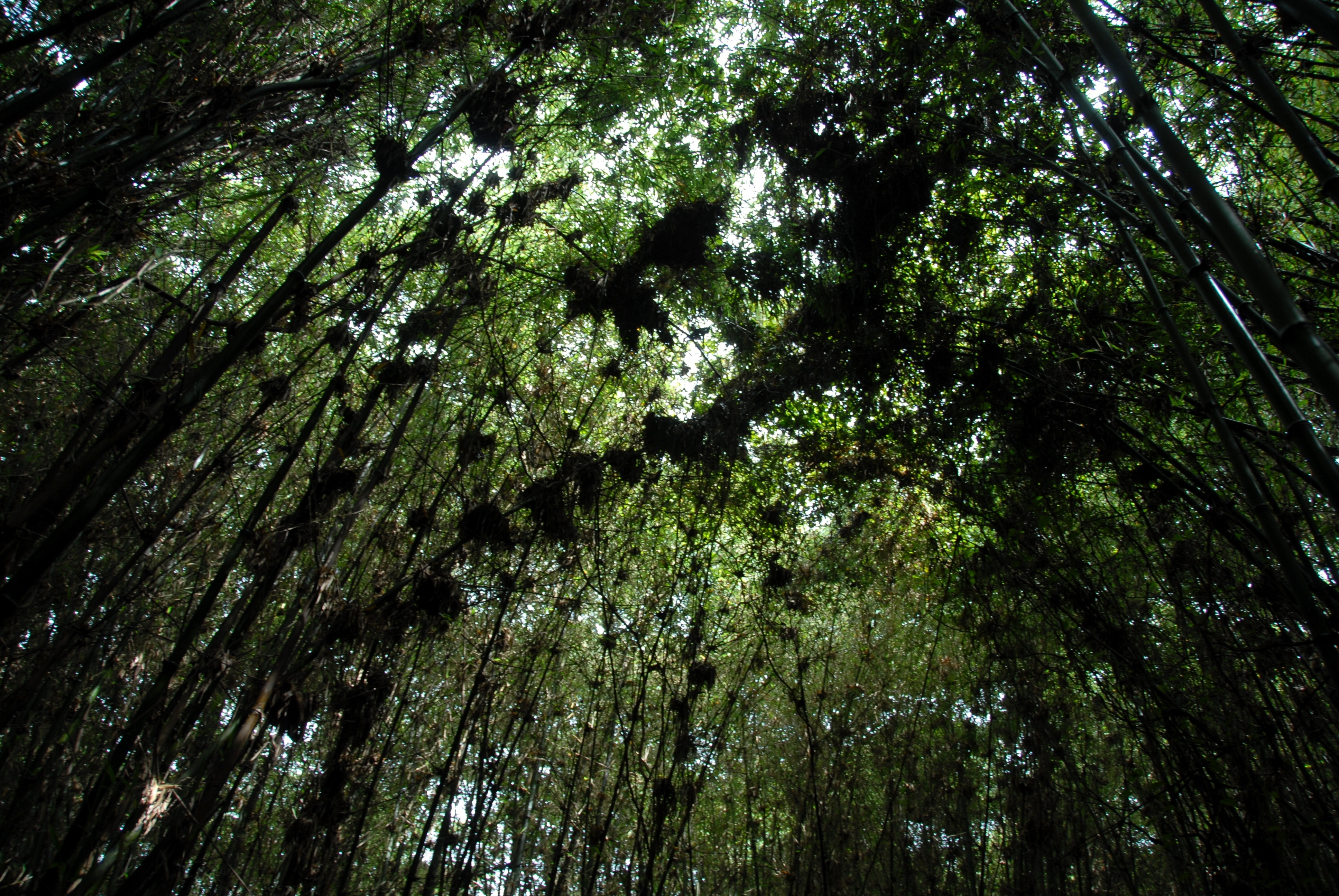 Parc National Des Volcans